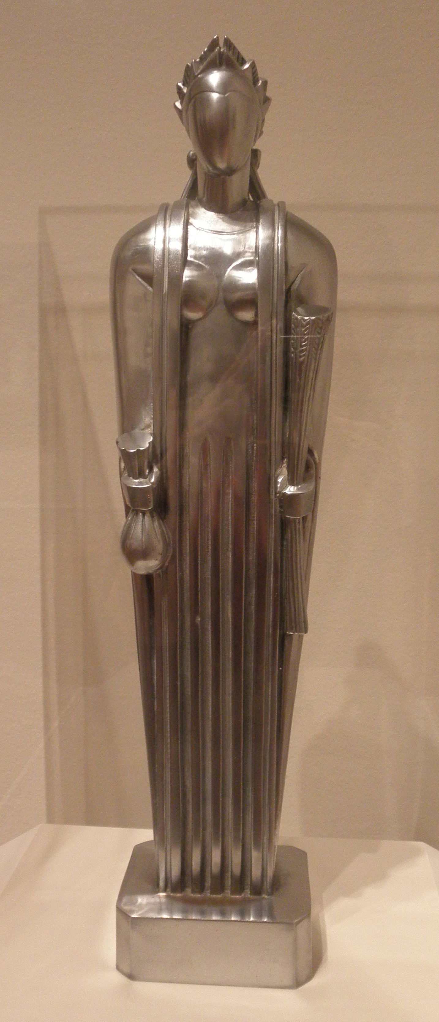 Scale model of John H. Storrs' statue of Ceres as on display in the Art Institute of Chicago. A 9.6 meter tall version of this statue is on top of the Chicago Board of Trade building.